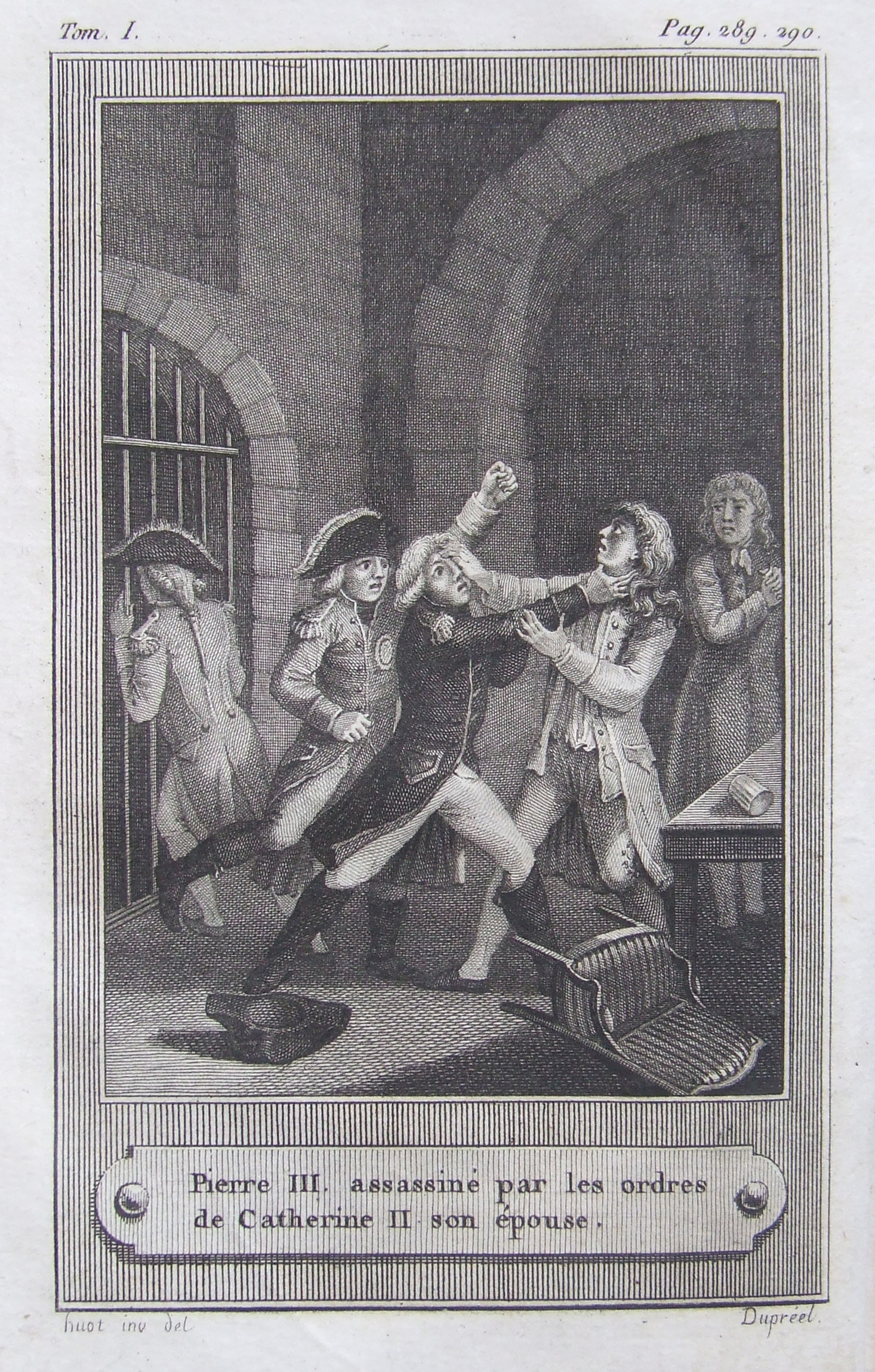 J.-Ch. Thibault de Laveaux. The frontispice of the History of Peter III. 1799. Volume I